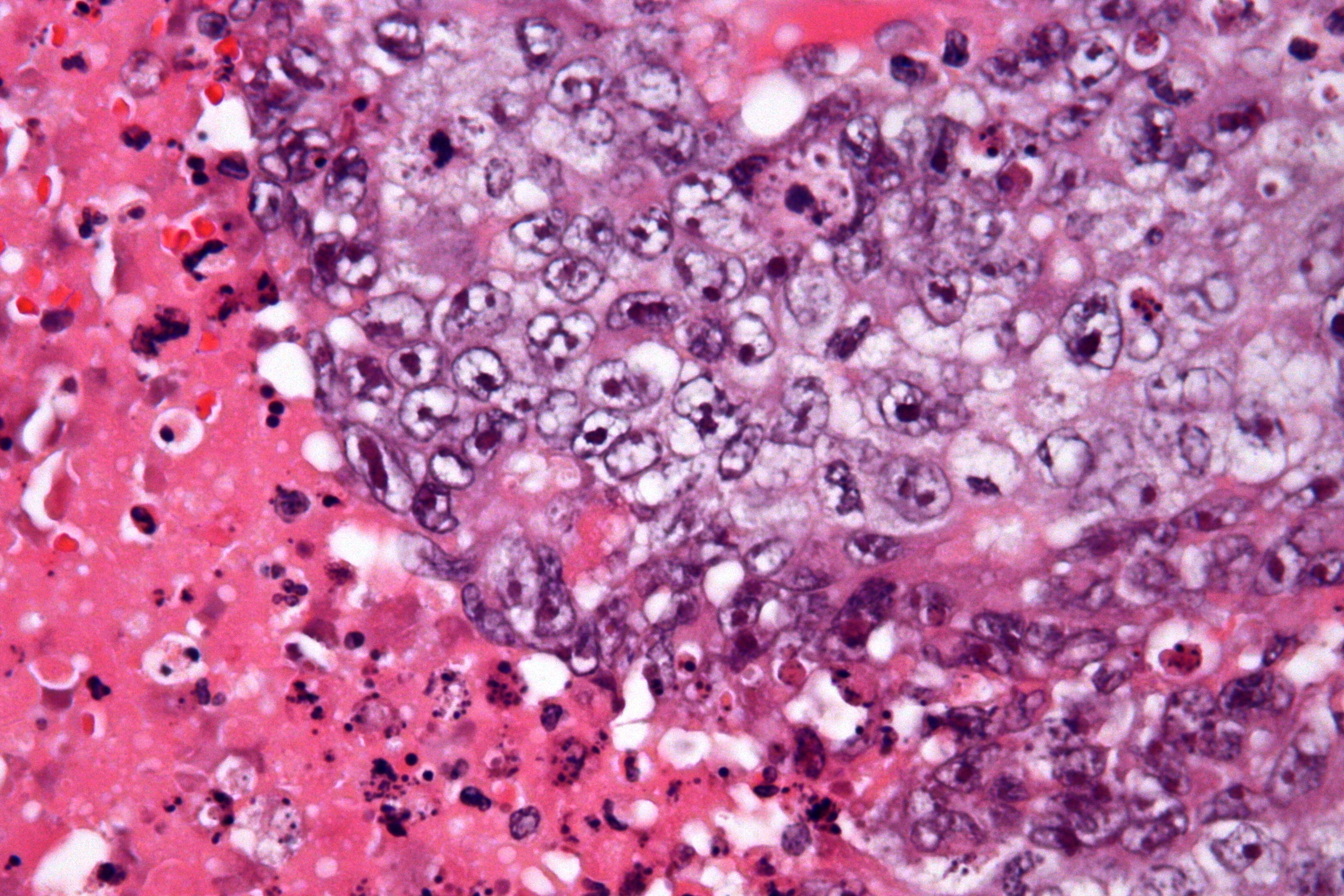 Very high magnification micrograph of an embryonal carcinoma, a type of germ cell tumour. H&E stain. Main features: Nuclear atypia. Nucleoli prominent. Nuclei overlap. Necrosis common. Other features: Variable architecture: Tubulopapillary. Glandular. Solid. Embryoid bodies - ball of cells in surrounded by empty space on three sides. Mitoses common. Related images High mag. Very high mag. Very high mag. (cropped)